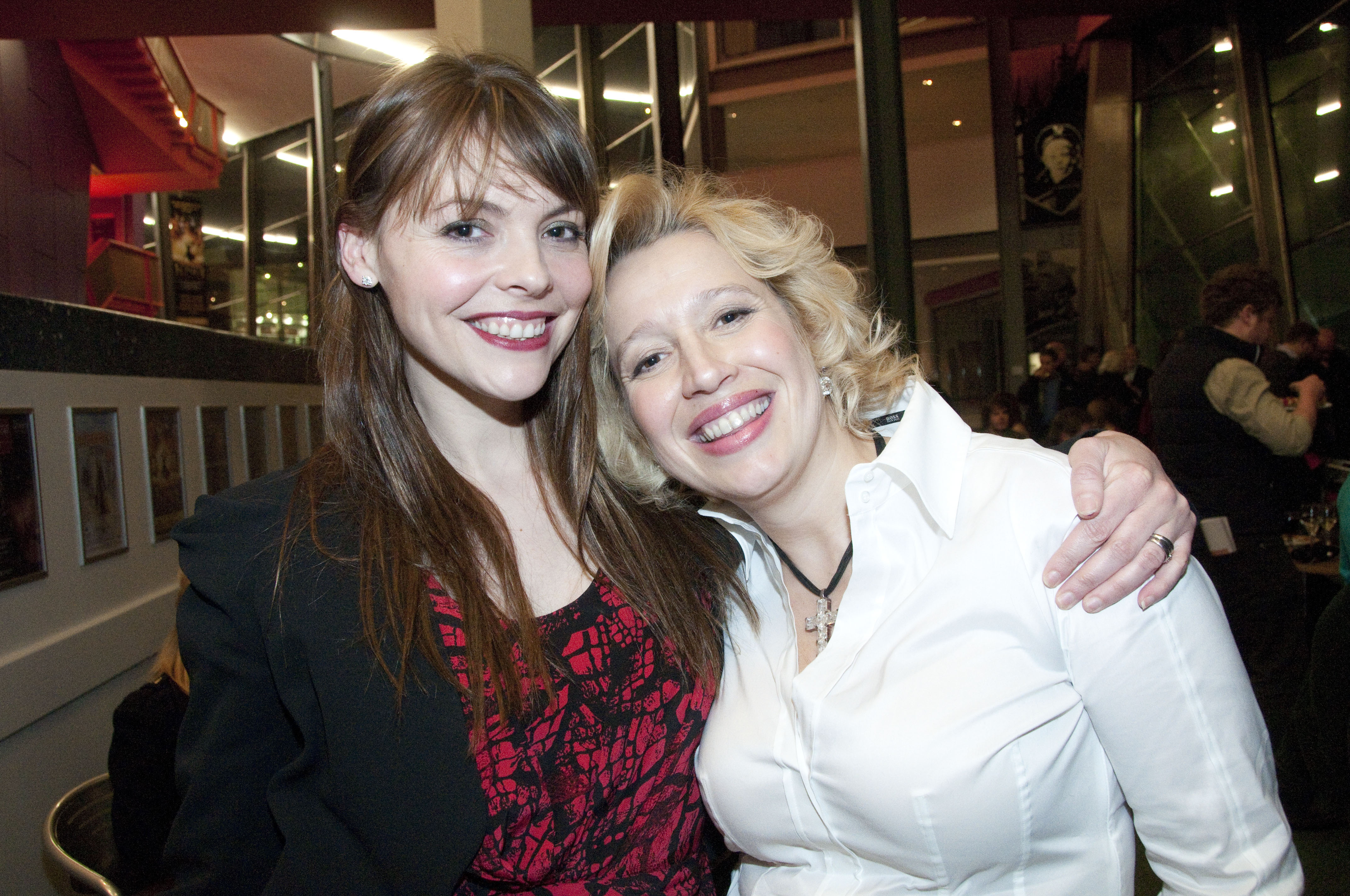 Kate Ford and Katy Cavanagh at the BBC Radio 2 Folk Awards on 9 February 2012